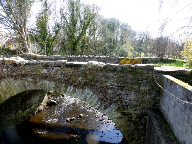 Stone built bridge, Kilmacrenan